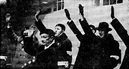 Newspaper clipping: Estonian League of Freedom Fighters, Vaps Movement, Roman salute